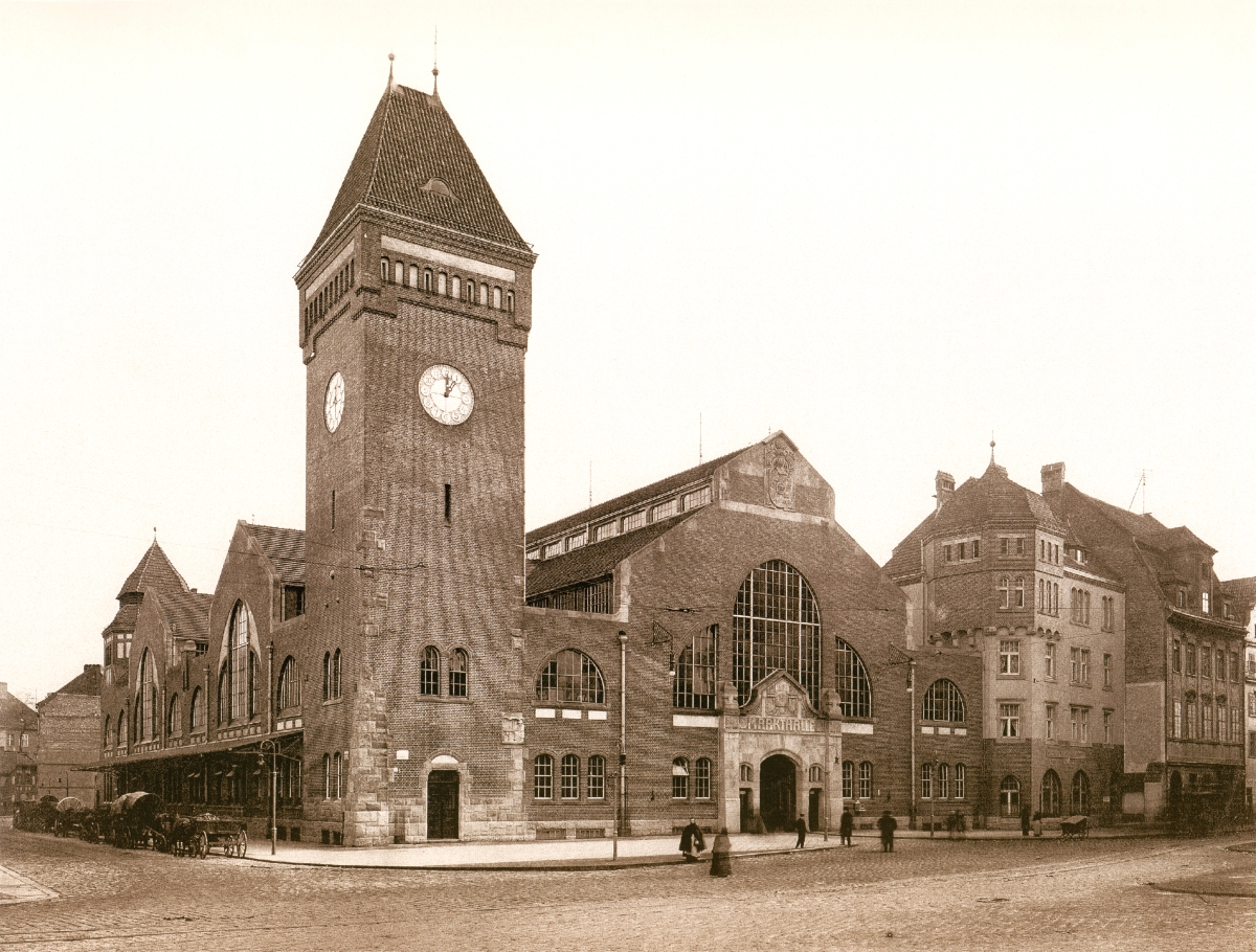 The old market hall in Wroclaw, Poland